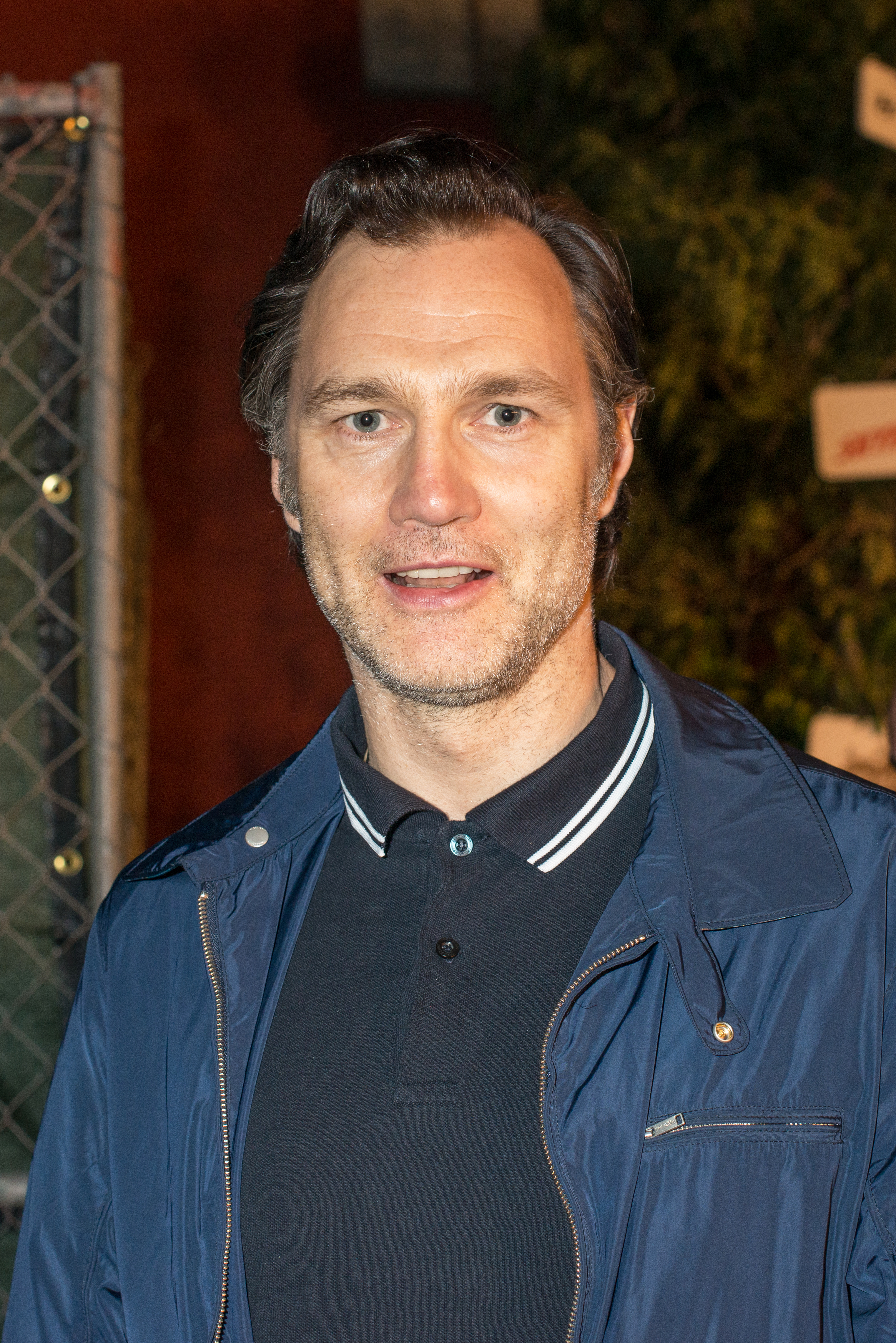 David Morrissey at a Walking Dead event in 2013